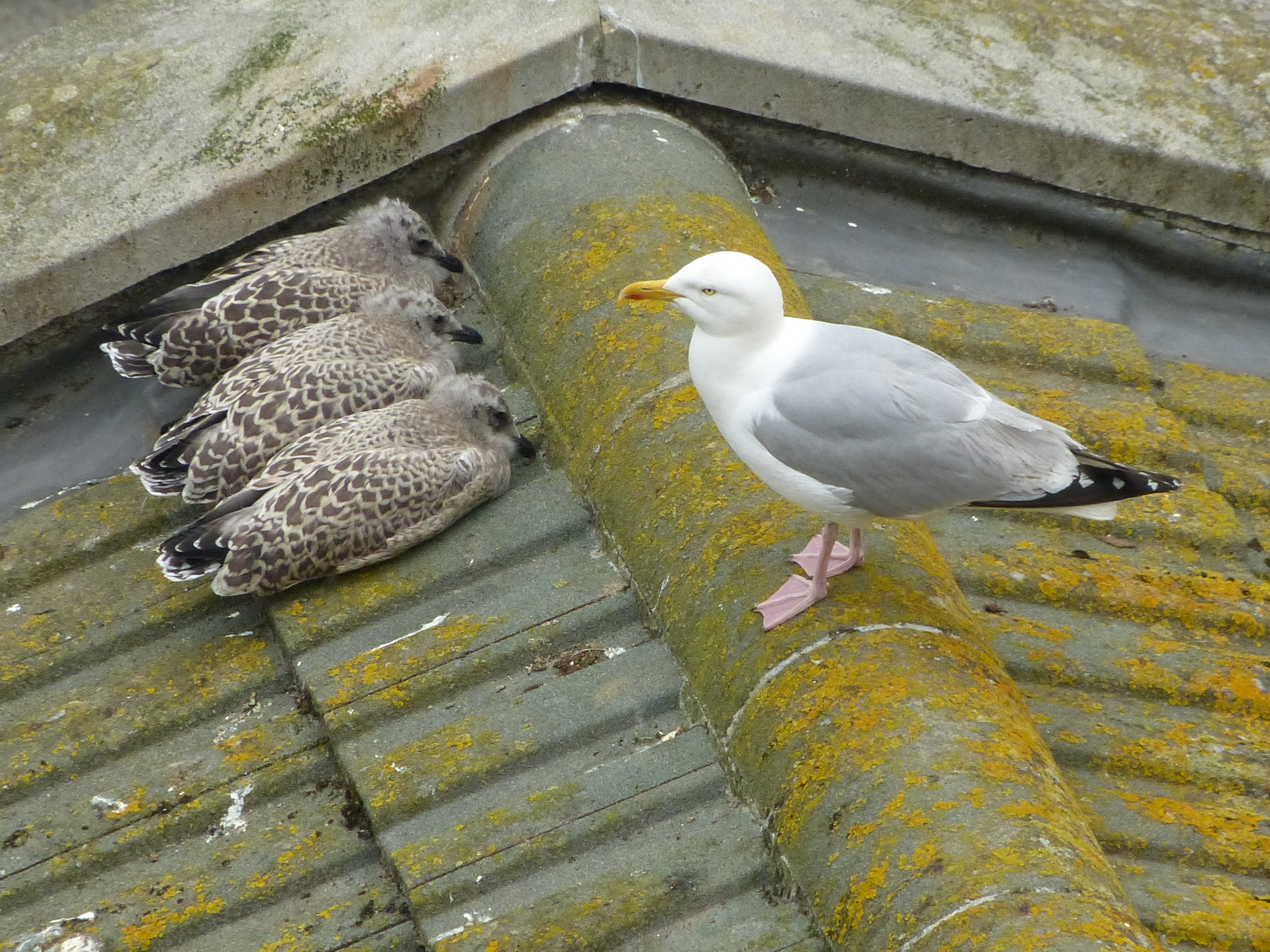 Latin name Larus argentatus Family Gulls (Laridae) Overview Herring gulls are large, noisy gulls found throughout the year around our... Where to see them ... When to see them All year round. What they eat Ominivorous - a scavenger.